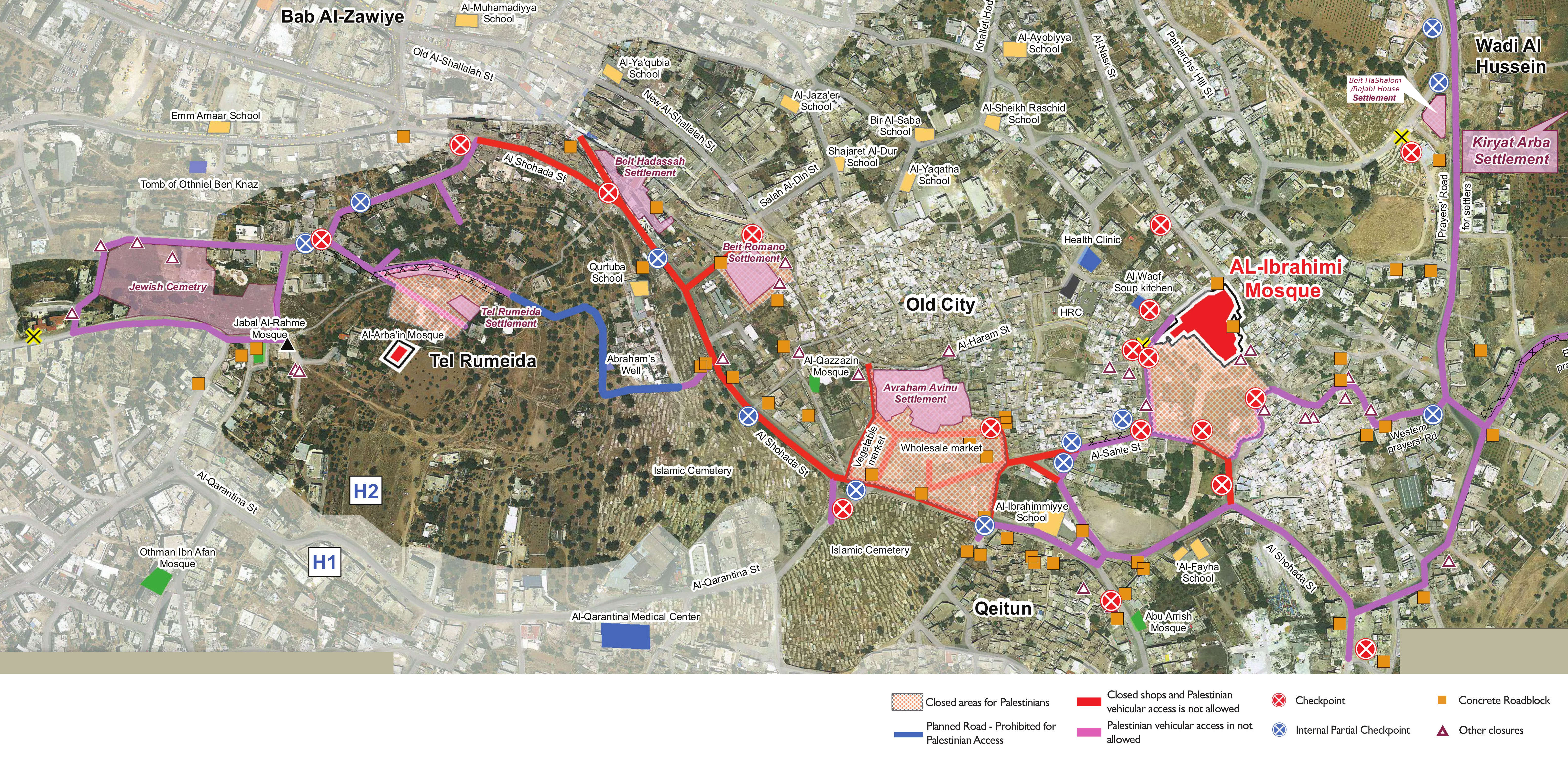 The Shuhada Street in Hebron under Israeli occupation. Palestinian shops are closed since 1994 and Palestinian vehicles are prohibited. Israeli military checkpoints along the street, and in adjacent streets are indicated.